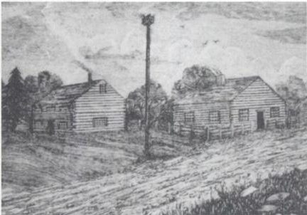 A sketch of the Jones' home at the Credit Mission by Eliza Jones